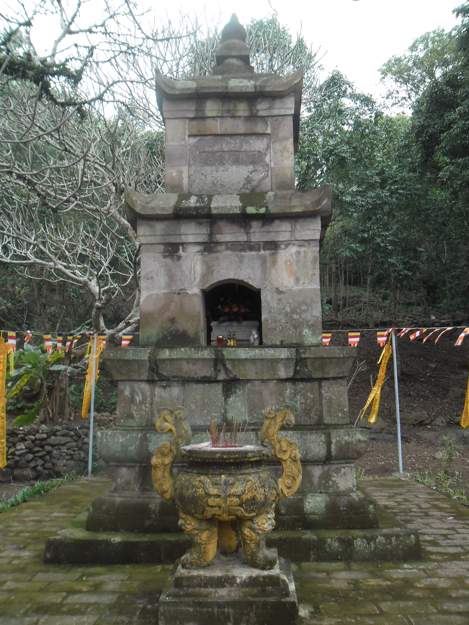 The tomb of Vietnamese Buddhist monk built in 1334 in Thanh Mai buddhist temple, Hai Duong province